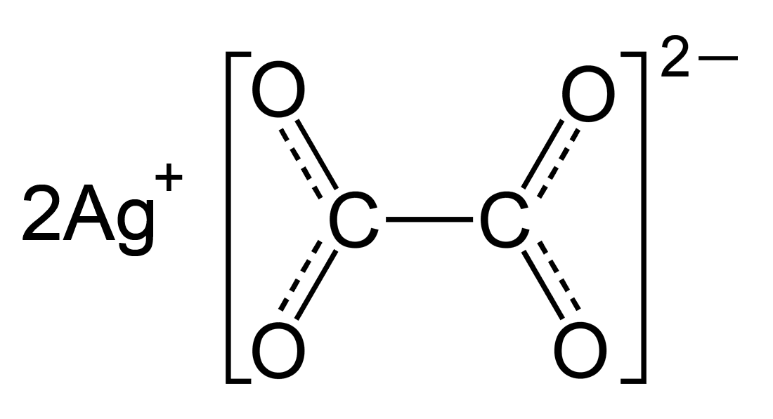 Silver oxalate with resonance structures of oxalate ion shown by dashed lines on C-O bonds.